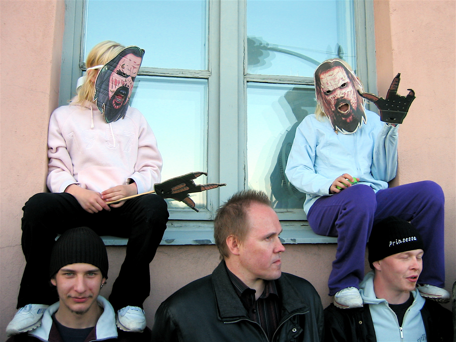 90.000 people (=10% of Helsinki area population!) did gather at Helsinki Market Square to celebrate Lordi's victory of Eurovision Song Contest 2006